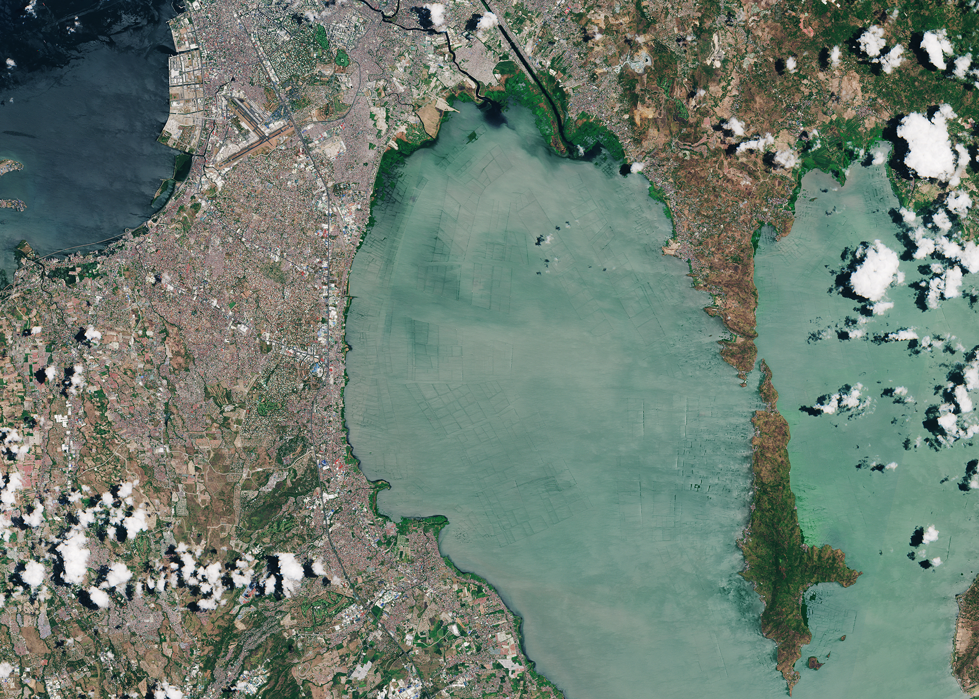 The Sentinel-2A satellite takes us over Luzon in the Philippines, with part of the city of Manila in the upper left. We can clearly see a difference in colour between the two water bodies: the dark Manila Bay on the left, and lighter Laguna de Bay dominating the centre. This is due to differences in depth, with the Laguna reaching a maximum of 4 m during the rainy season. One of the most striking features of this image are the black plumes of water pollution visible at the outlets of the Taguig and Pasig rivers, as well as the manmade Manggahan Floodway entering the Laguna de Bay at its northern point. Meanwhile, the nearby Manila Bay has been called a ‘pollution hotspot’. Runoff into the water body carry sewage, pesticides, fertilisers and industrial discharges, and other pollutants contribute to the low water quality, as well as sea-based sources of pollution like oil spills. Celebrated on 22 March each year, World Water 2017 focuses on the theme of wastewater. Satellites like Sentinel-2 can help to measure water quality and detect changes in both inland water bodies and coastal zones, supporting the sustainable management of water resources. This image was captured by the Copernicus Sentinel-2A satellite on 8 May 2016.